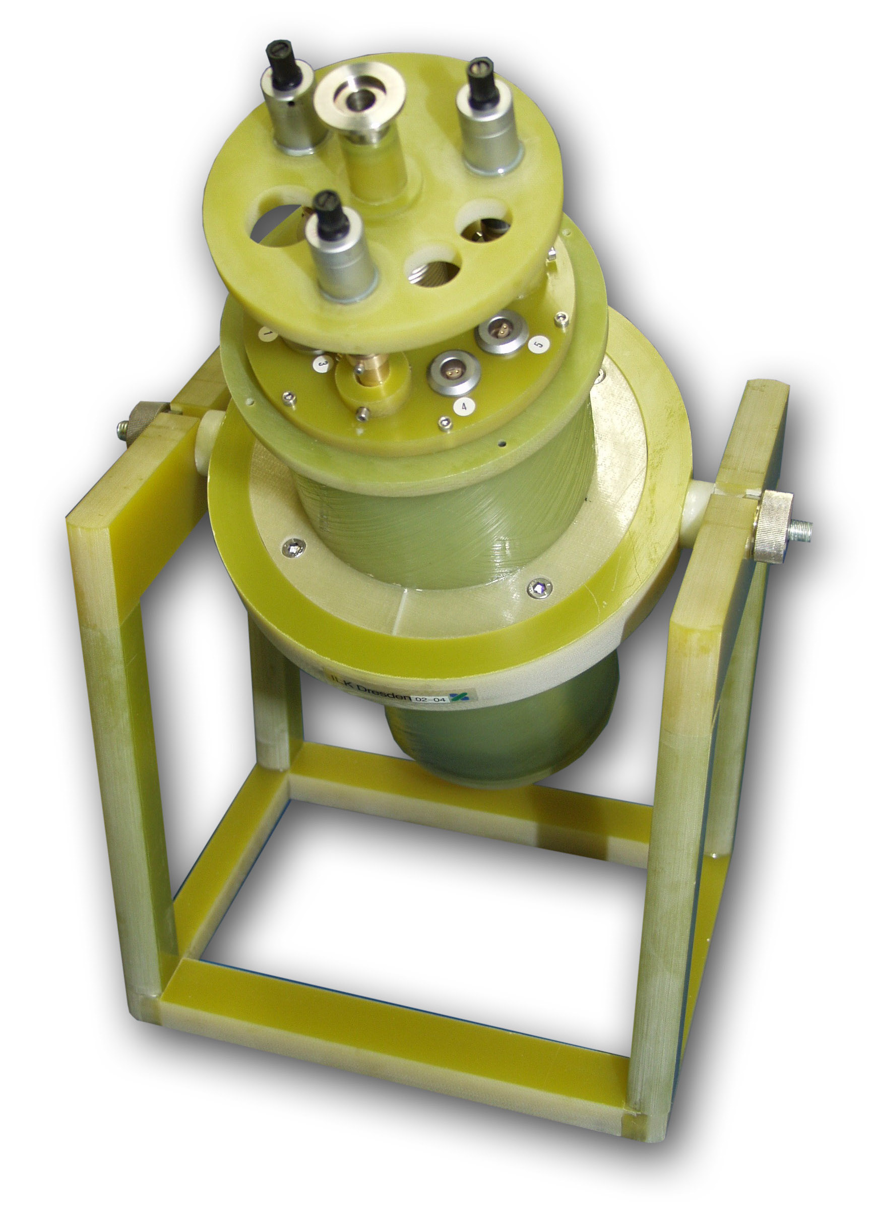 non-metallic, tiltable cryostat for liquid nitrogen, approx. 400 mm high